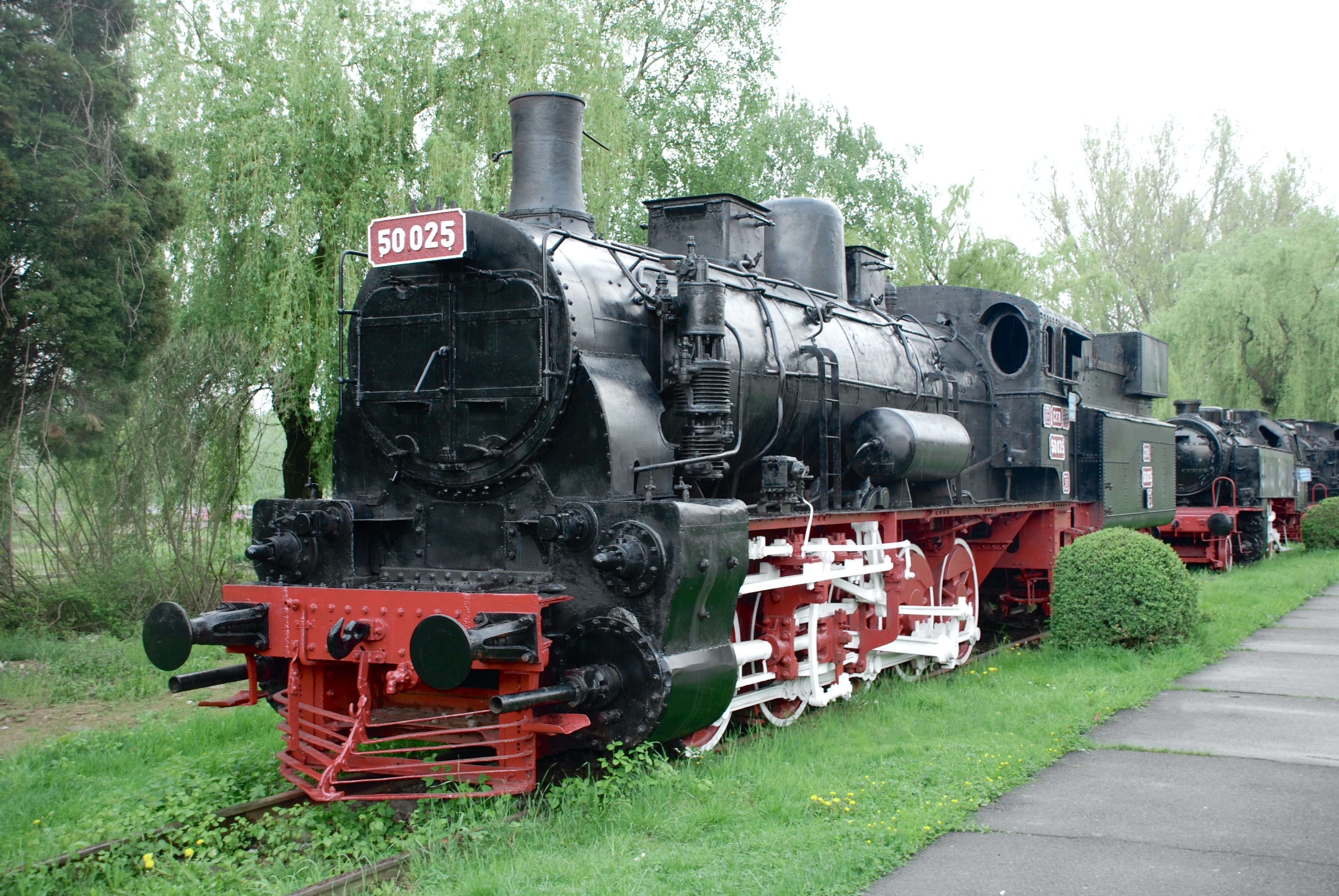 CFR 50.025 romanian steam locomotive